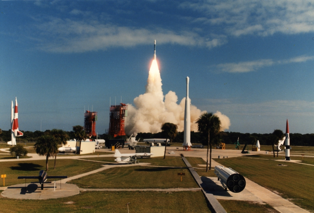 View of a rocket launch from the rocket garden of Cape Canaveral museum